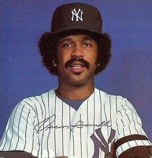 Professional baseball player Oscar Gamble during the 1981 season as a member of the New York Yankees.